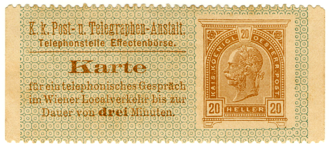 1900 20h Vienna 3min local telephone conversation card